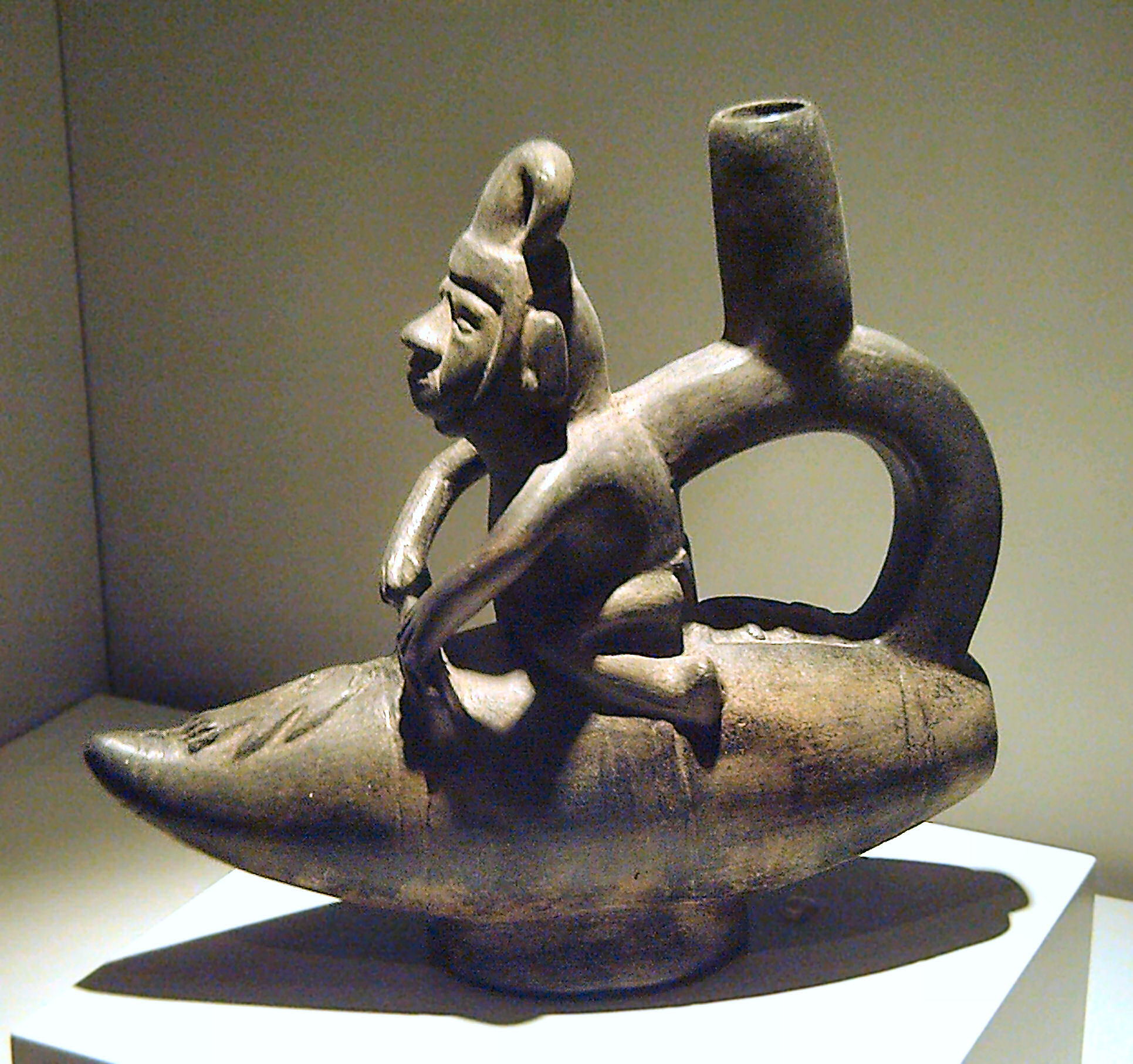 Ceramic vessel representing a caballito de totora manded by a fisherman. Chimú Culture artwork.